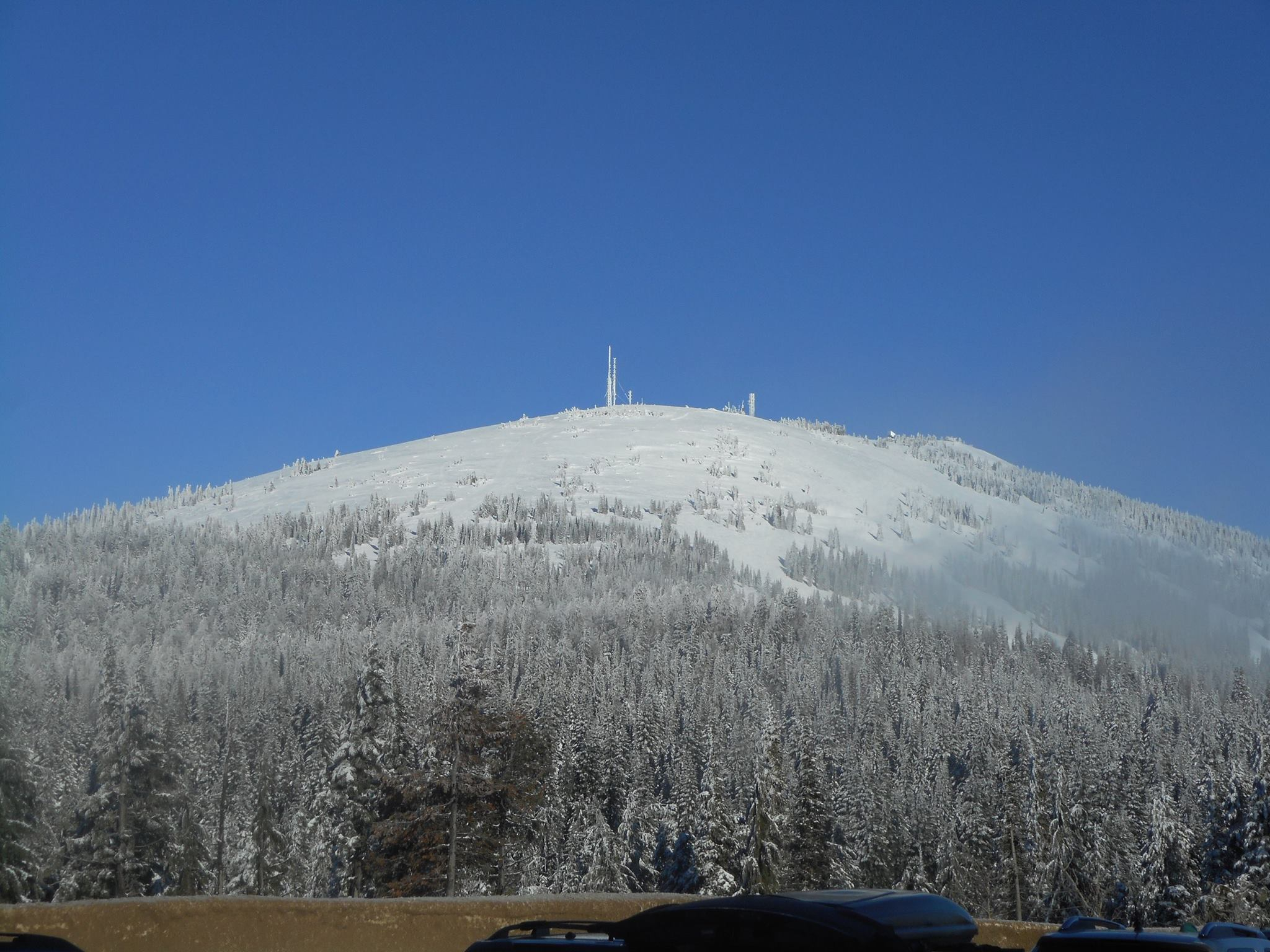 This is Mt. Spokane from the Nordic parking lot in front of Selkirk Lodge